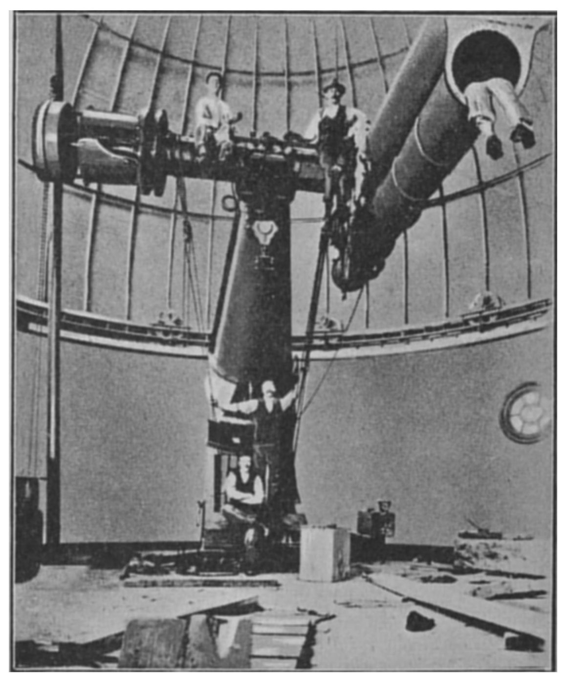 The Victoria Telescope at the Cape of Good Hope.